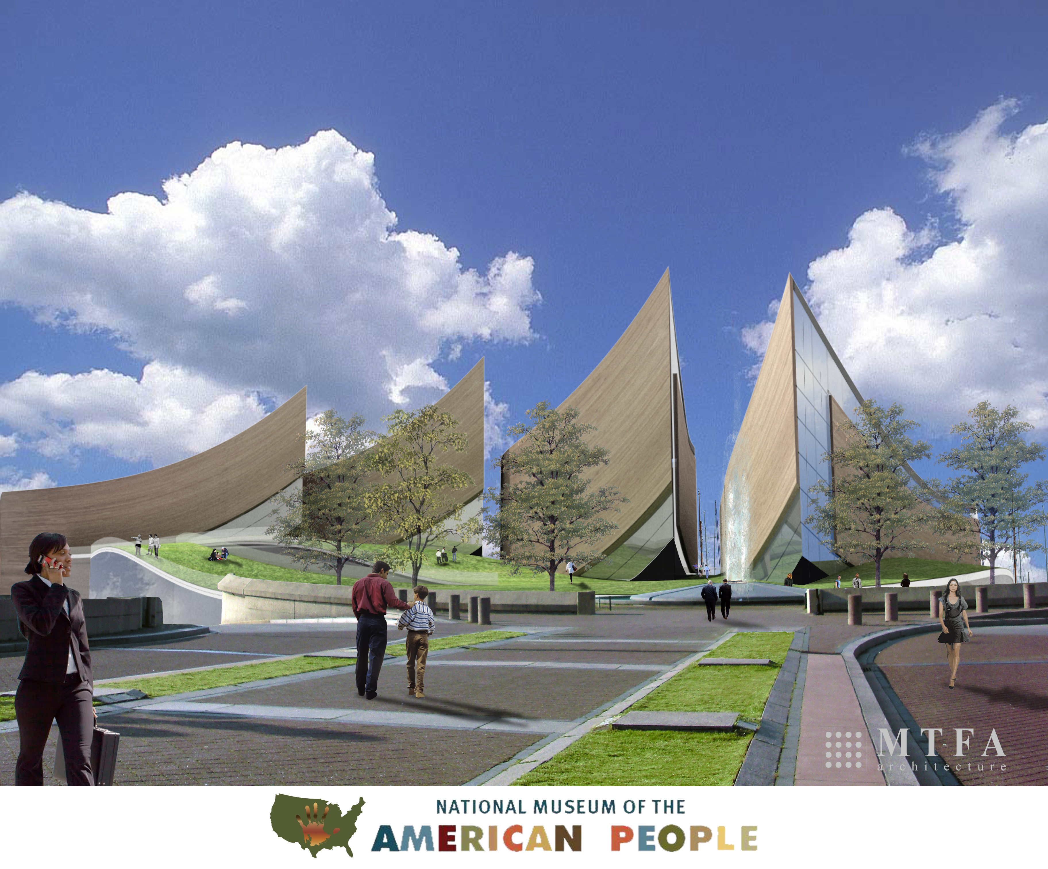 Architectural Concept for the proposed National Museum of the American People — created by MTFA Architecture for the Coalition for the National Museum of the American People. Official caption "At the south end of L’Enfant Plaza with your back to the National Mall, this is what a vision of the National Museum of the American People looks like at the Banneker Park Overlook site." "Design concept by MTFA Architecture."